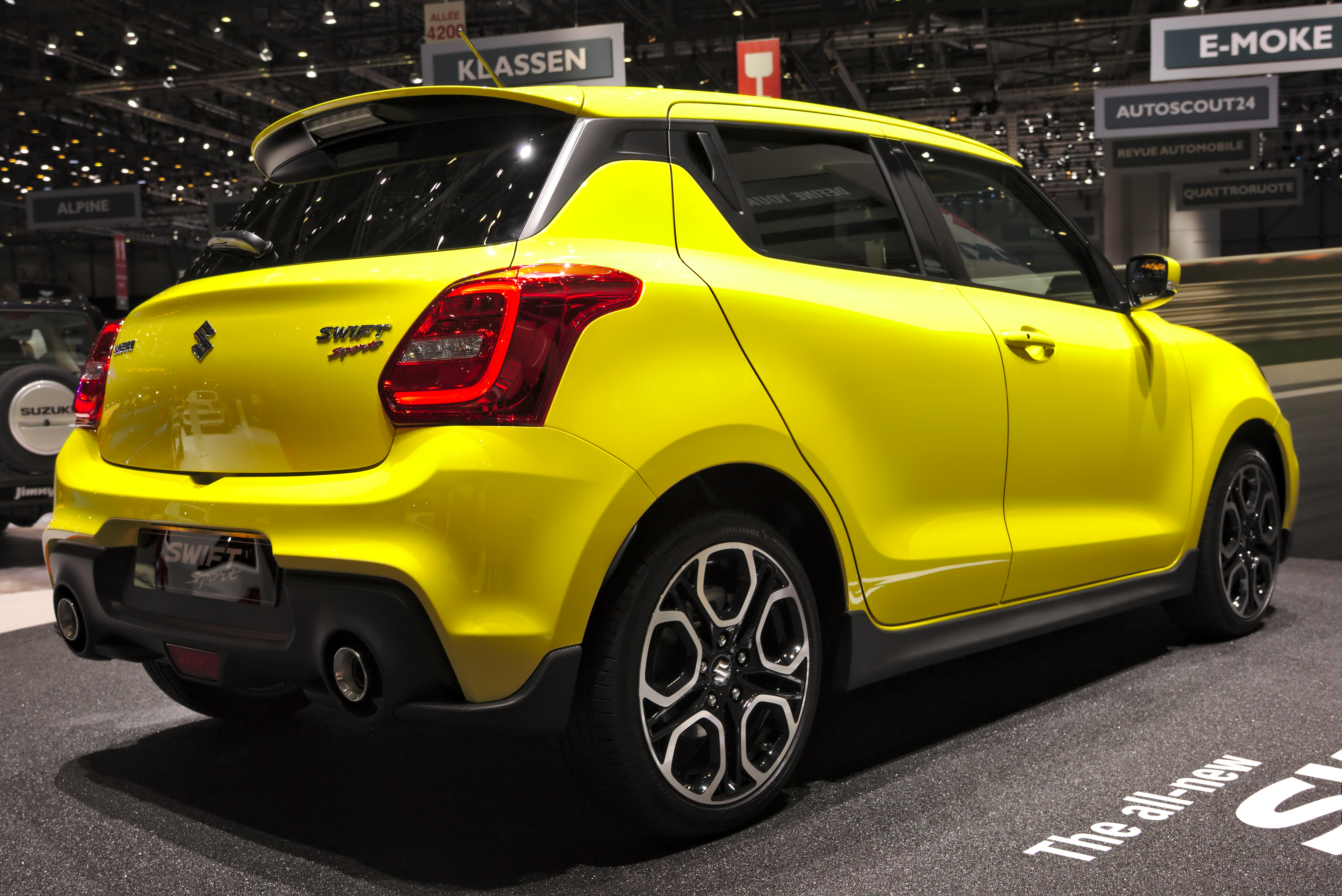 Suzuki Swift Sport at Geneva Motorshow 2018